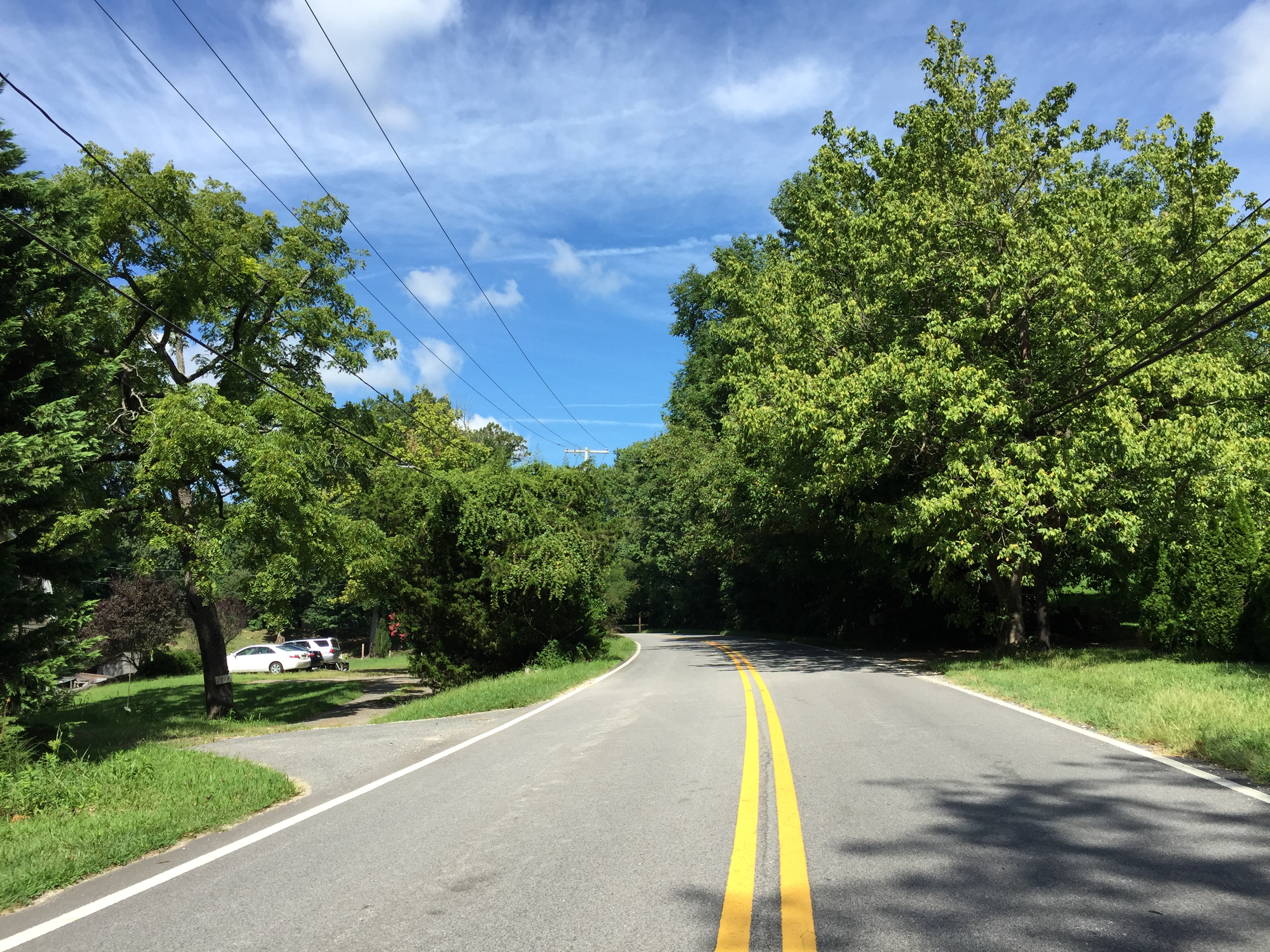 View west along Maryland State Route 798 (Old Generals Highway) at Sherwood Forest Road in Crownsville, Anne Arundel County, Maryland